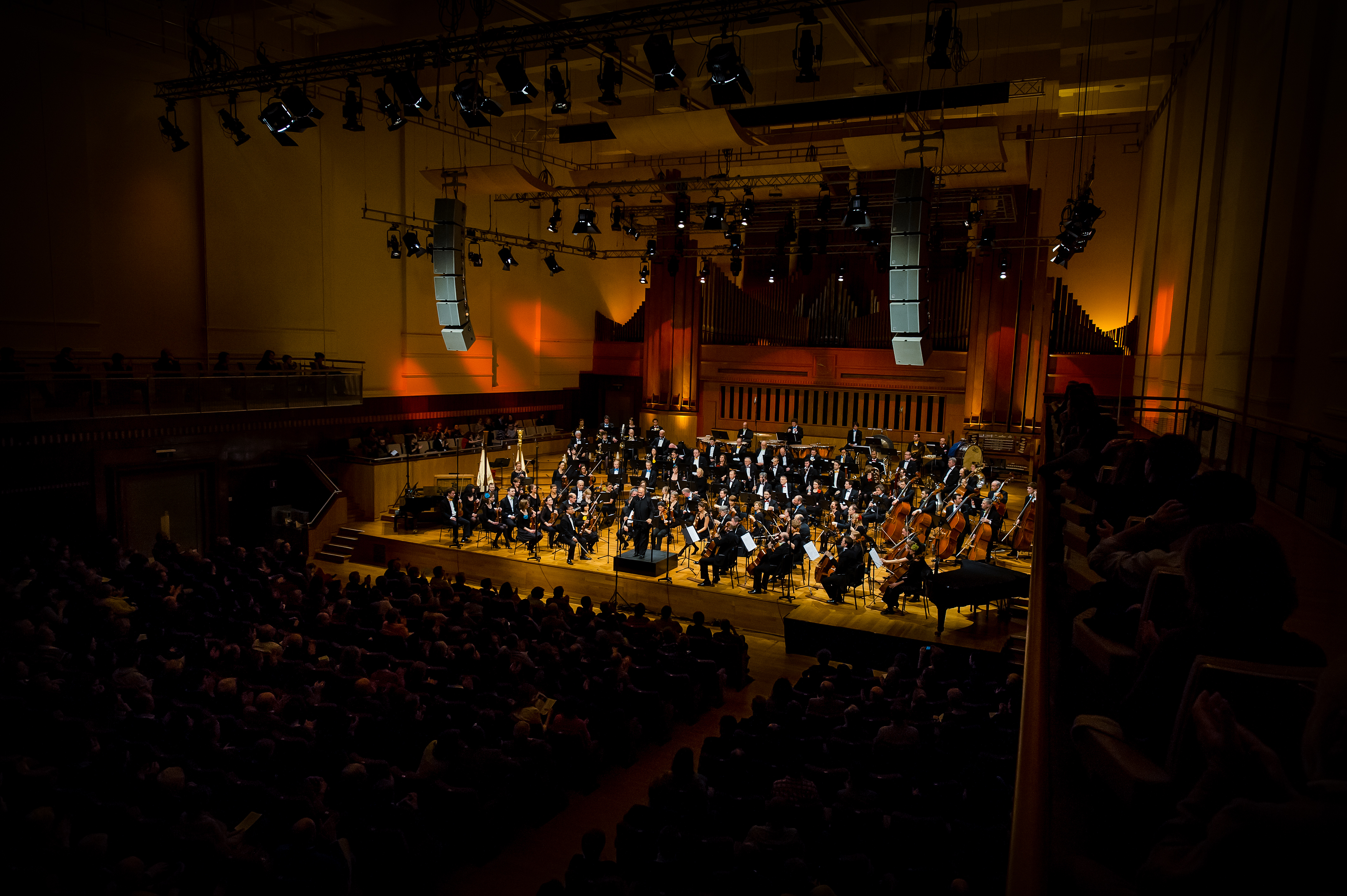 Brussels Philharmonic, 2013, Studio 4, Maison de la Radio de Flagey, Brussels. Photographer: Bart Dewaele